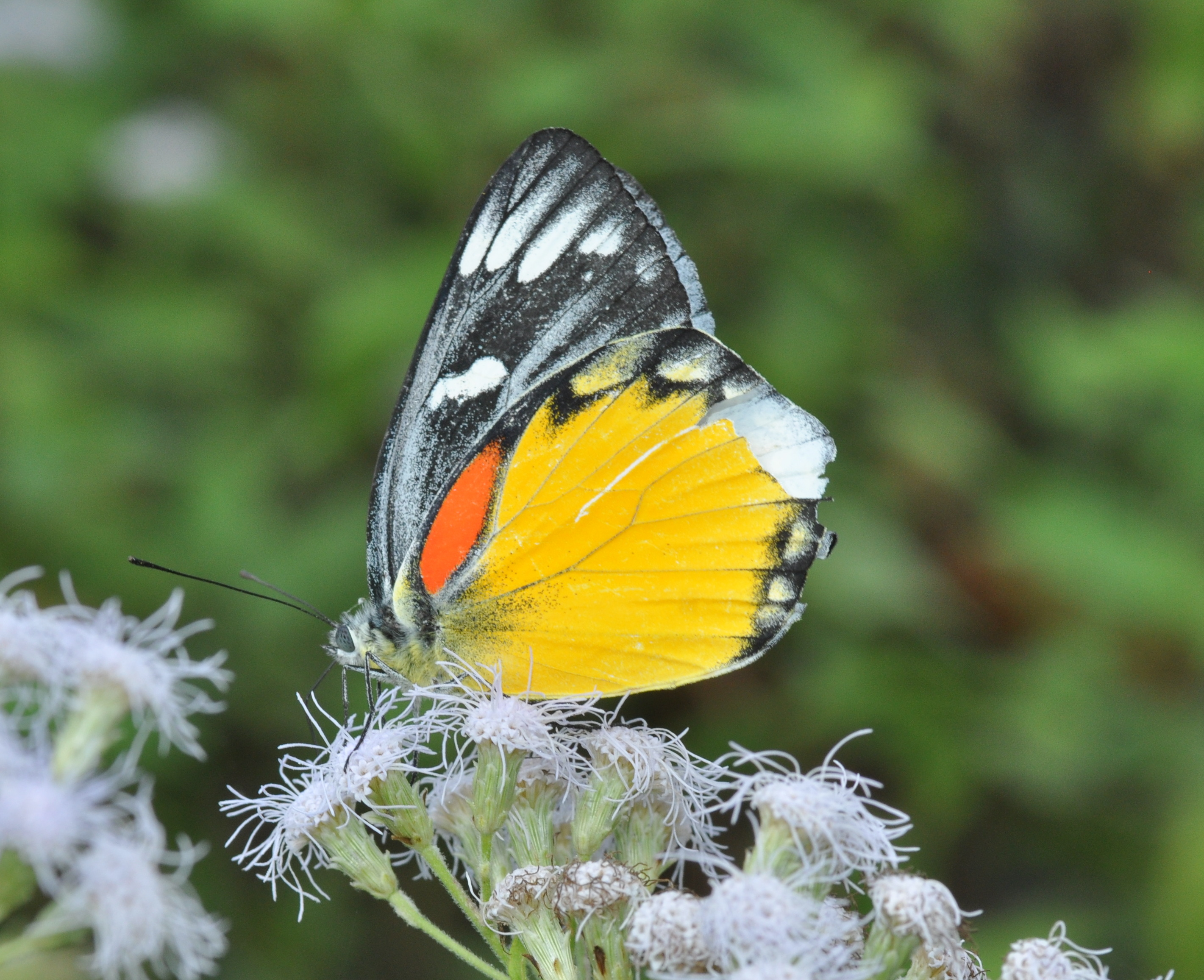 This picture was taken during the project Wiki Loves Butterfly in Buxa Tiger Reserve, Alipurduar,West Bengal, India. Close wing position of male Delias descombesi Boisduval, 1836 – Red-spot Jezebel